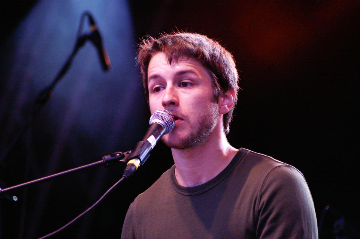 Belgian musician Sioen at the Bruis Festival in Maastricht